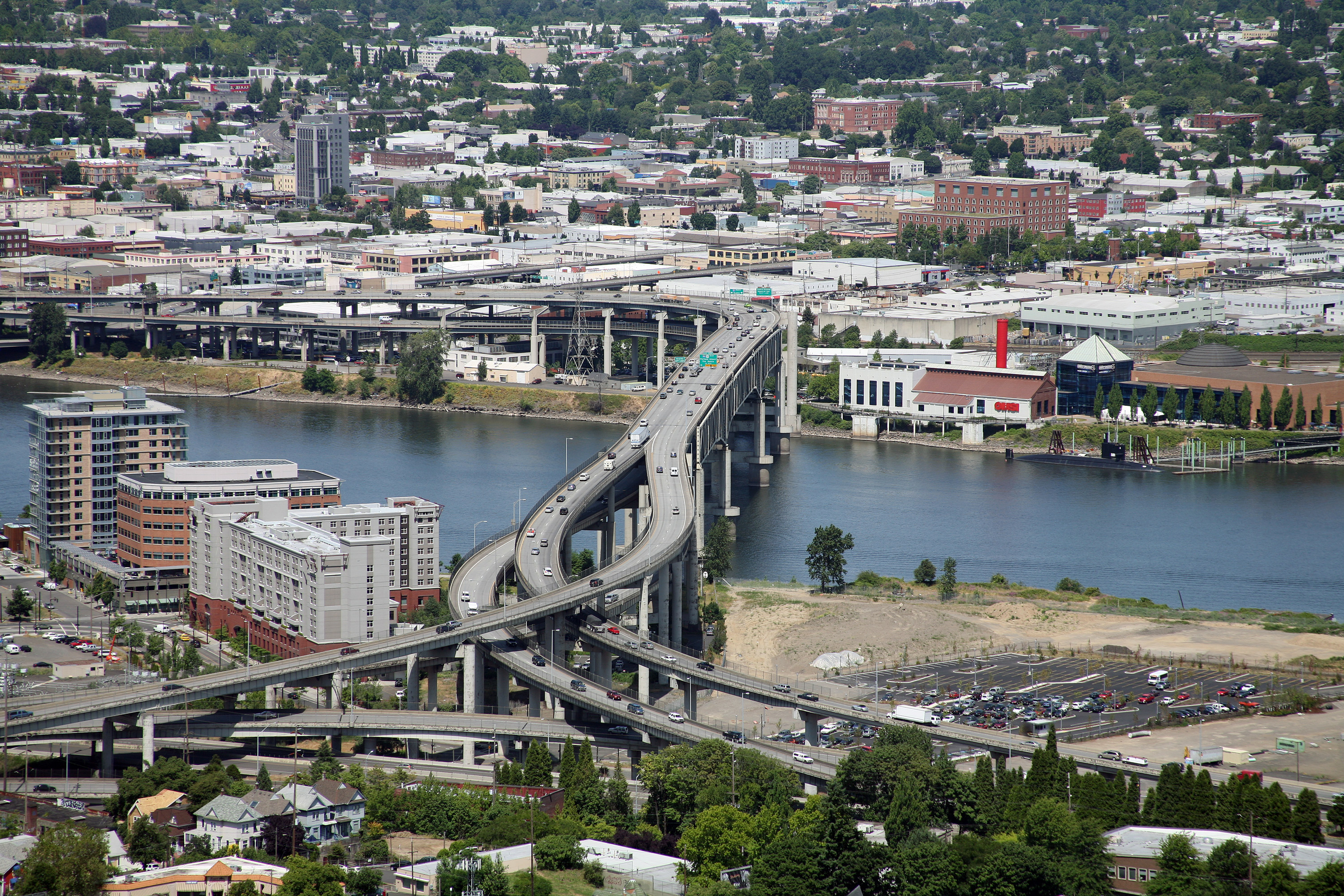 The Marquam Bridge over the Willamette River, in Portland, Oregon. Viewed from the southwest, atop Marquam Hill. The ramps going to the bottom left are Interstate 405, and bottom right are Interstate 5.